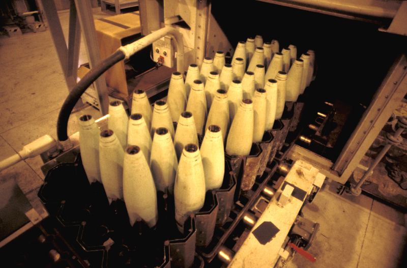 A tray of empty projectile casings coming out of the metal parts furnace after being decontaminated during operations at JACADS